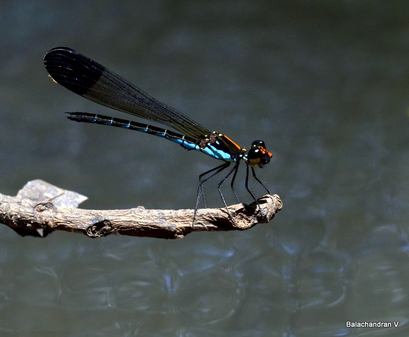 Calocypha laidlawi, Myristica Sapphire, is a damselfly in the family Chlorocyphidae. It is a rare and endemic damselfly of the Western Ghats Mountains, India. Found only in forest streams, especially in Myristica swamps.